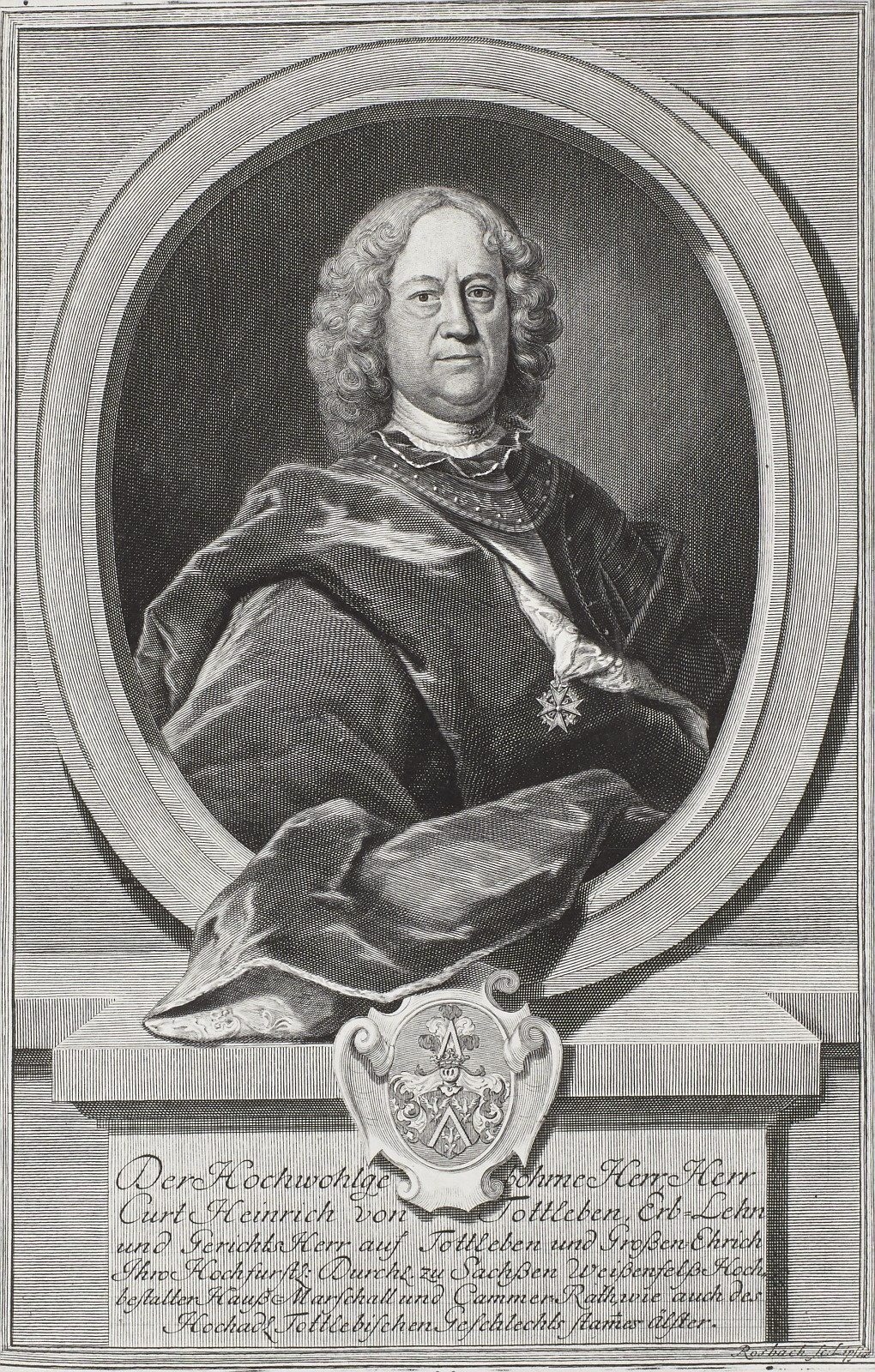 Gottlieb Heinrich Totleben